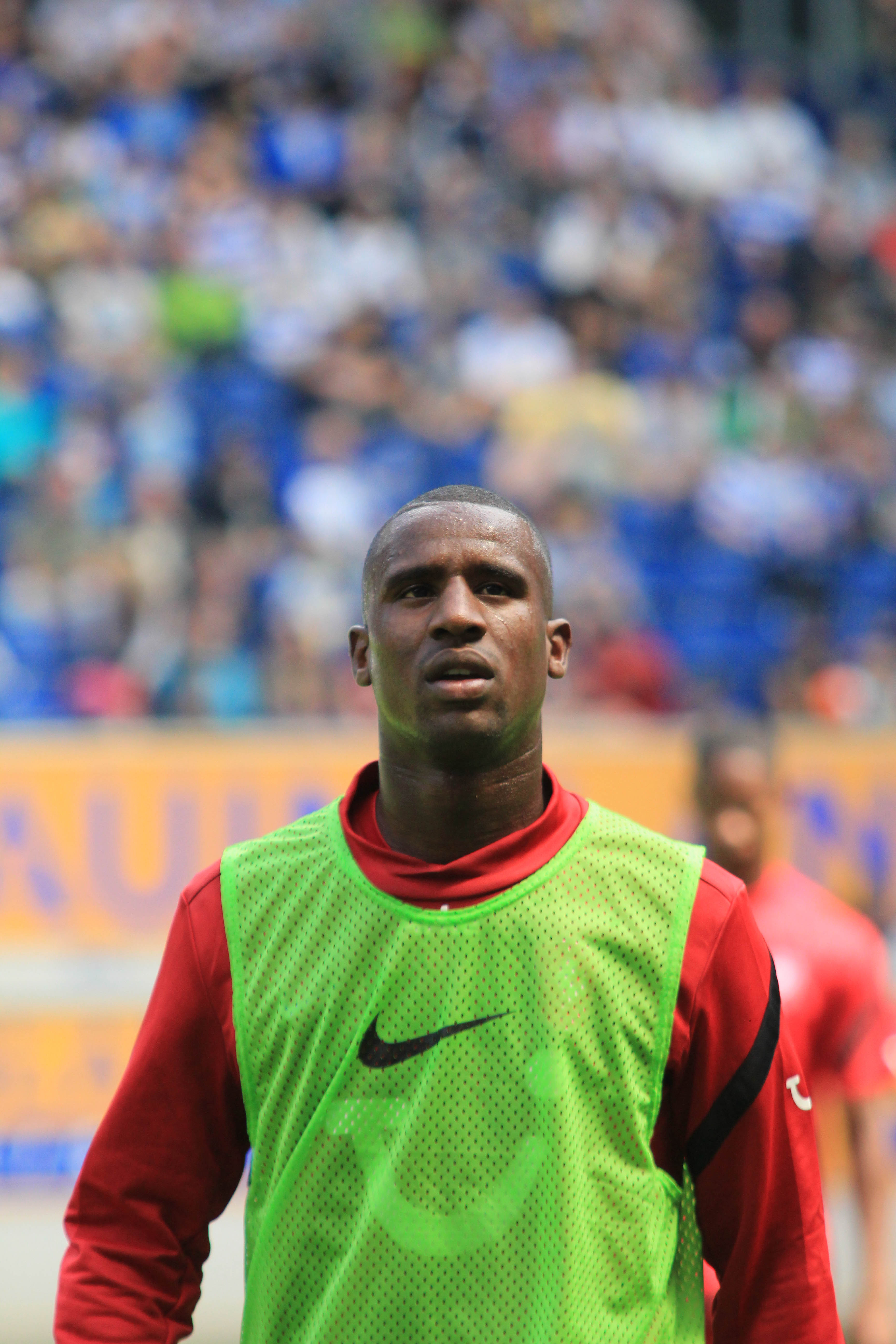 Dutch footballer Douglas Franco Teixeira, FC Twente